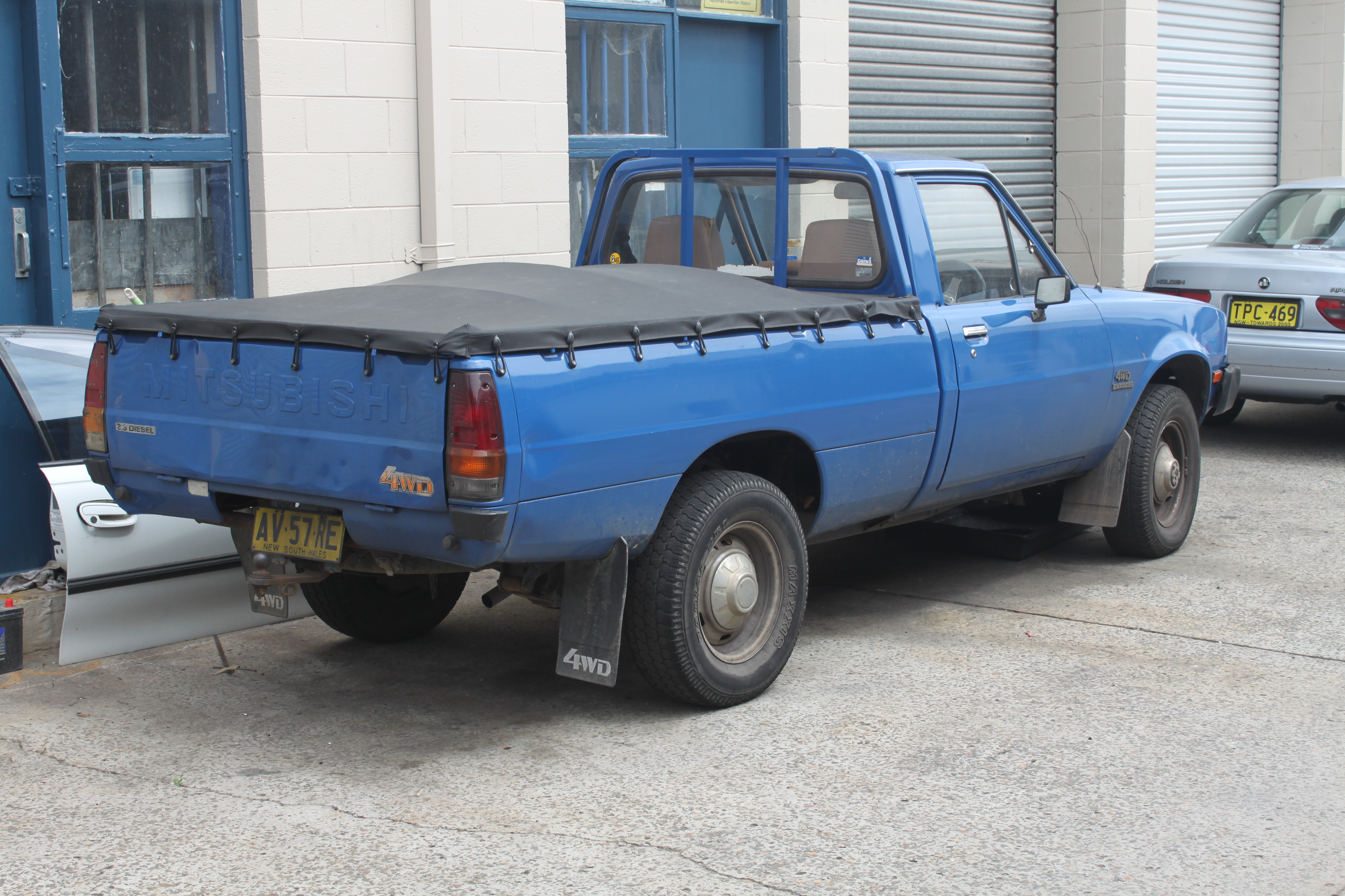 1984 Mitsubishi L200 Express (MC) 2.3 Diesel 4WD utility. According to the Roads and Maritime Services, this is a "1985 BLUE MITSUBISHI MC L200 EXPRESS 4WD-D UTILITY". However, MC models ended production in 1984 and the grille fitted is from the MC. Photographed in New South Wales, Australia.